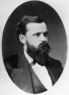 Photograph of Mark Walrod Harrington, during his tenure as Director of the Obseratory at the University of Michigan, which he held from 1879–1891